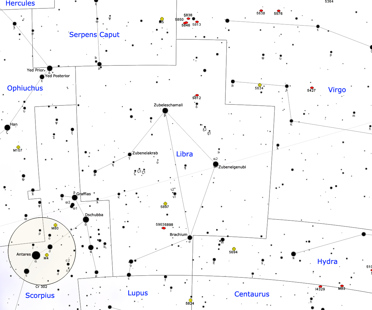 map of Libra